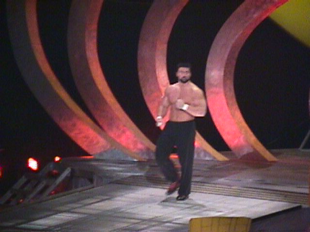 Steve Blackman making a grand entrance. 1999 WWF (WWE) Smackdown in NY